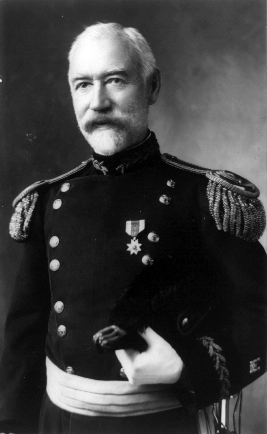 Brig. Gen. Alexander Mackenzie, US Army Corps of Engineers